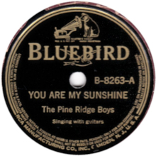 Pine Ridge Boys - You Are My Sunshine 78 (Bluebird) Recorded August 22, 1939, in Atlanta, GA First recorded version of You Are My Sunshine.